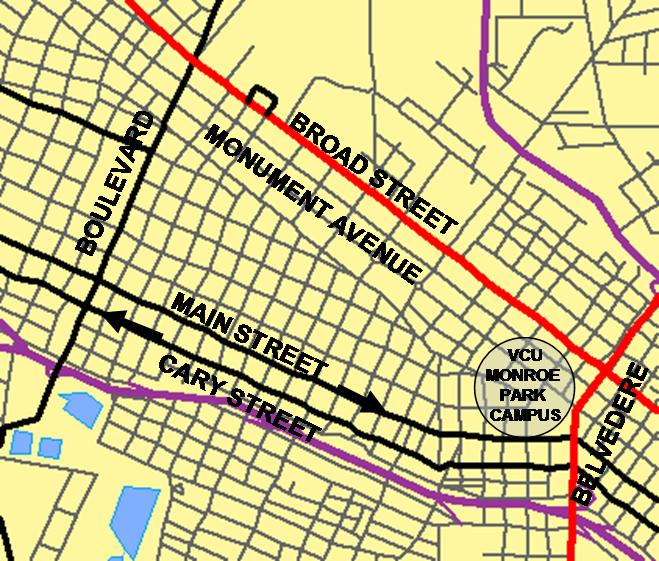 The arrows are in the wrong directions. Created by User:MPS using TIGER MAP tool at the US census bureau page. Titles were added by author using MS Powerpoint and MS Paint.